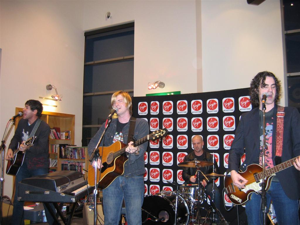 The Christian Rock band the Afters performing live on Feb 22, 2005 at an in store concert.